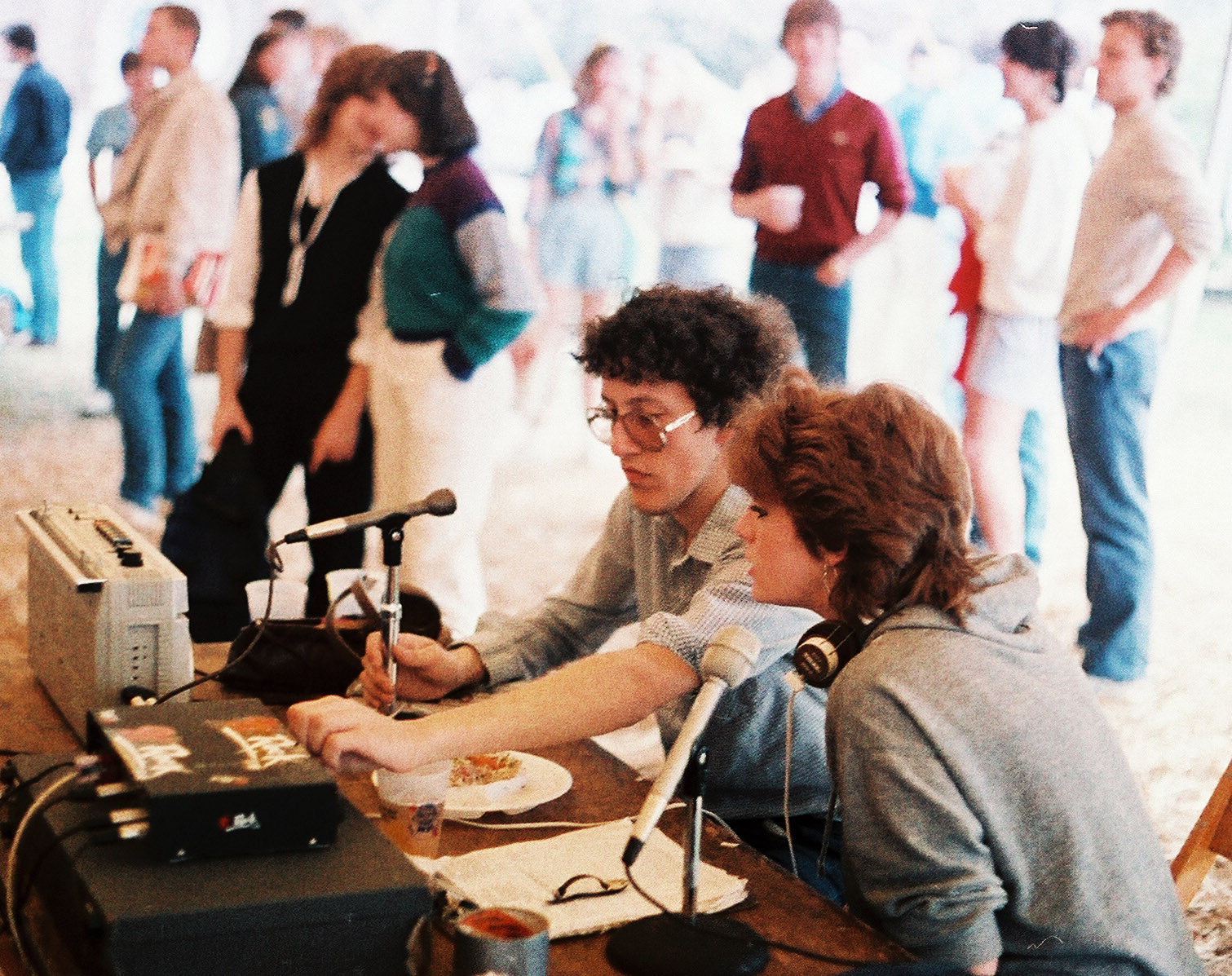 Richard Quest & Lisa Neideffer of WRVU/Nashville, broadcasting at Rites of Spring festival on Vanderbilt's Alumni Lawn, spring 1984.